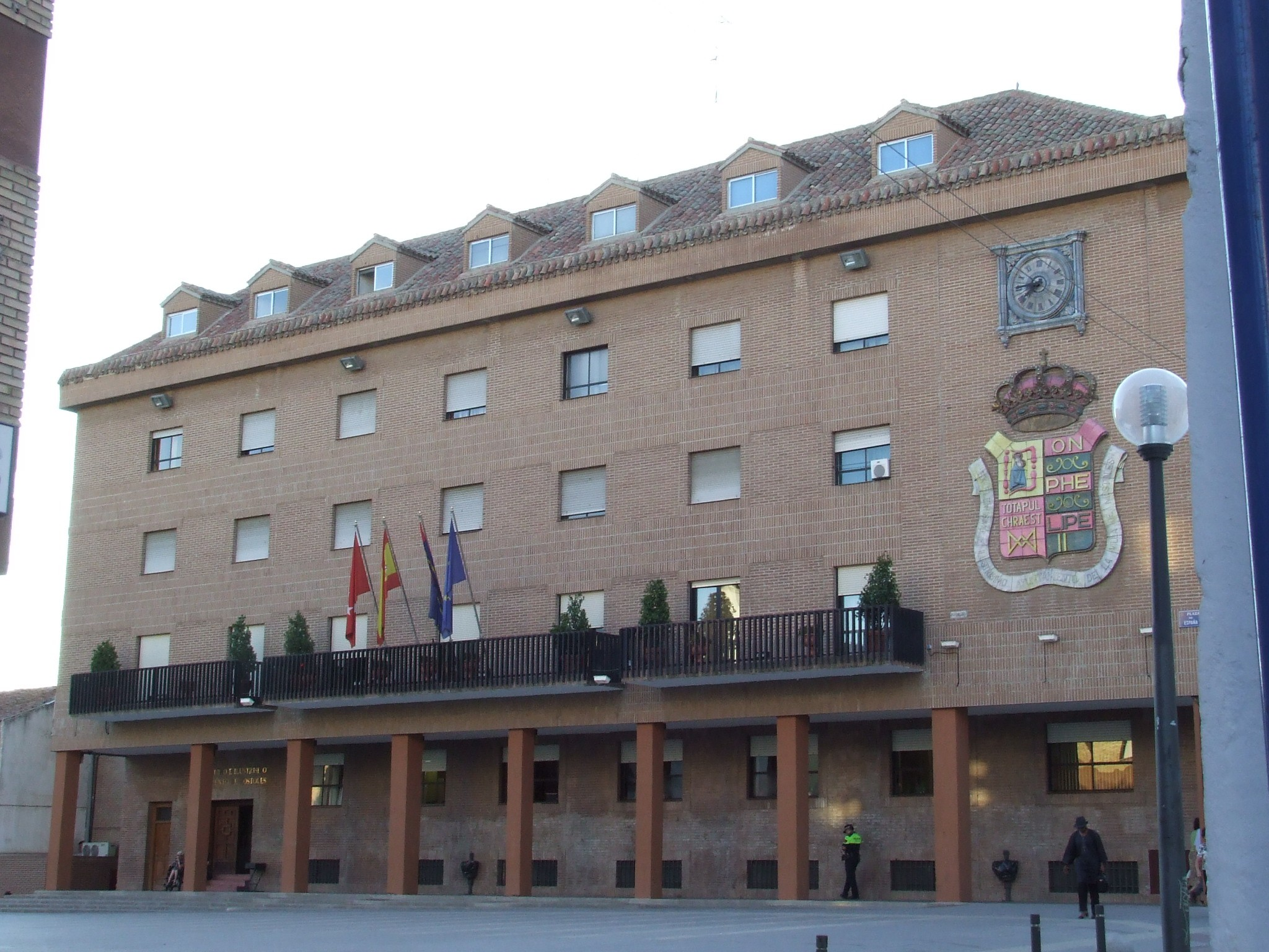 Móstoles is an autonomous community of the city Madrid in Spain.